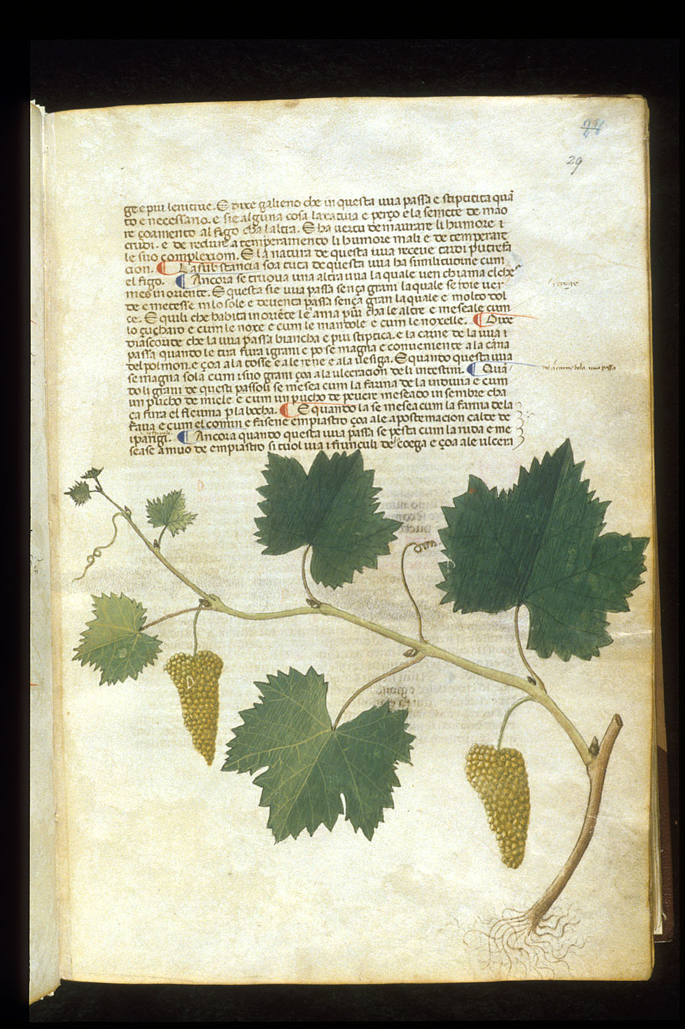 arapion the Younger, Translation of the herbal (The 'Carrara Herbal'), including the Liber agrega, Herbolario volgare; De medicamentis, with index (ff. 263-265) Italy, N. (Padua); between c. 1390 and 1404